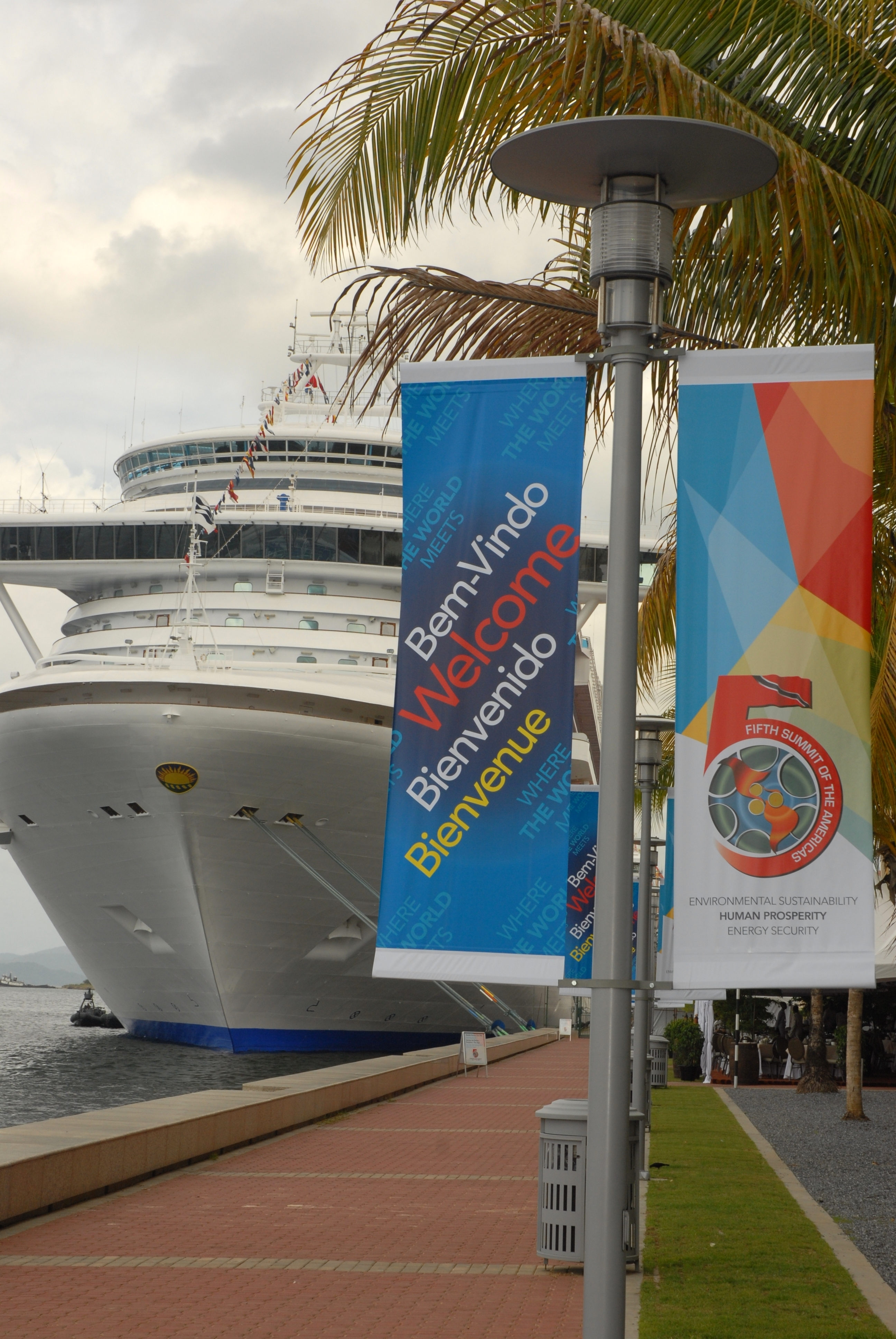 Chartered ships were used as "floating hotels" during Fifth Summit of the Americas in Trinidad, 2009